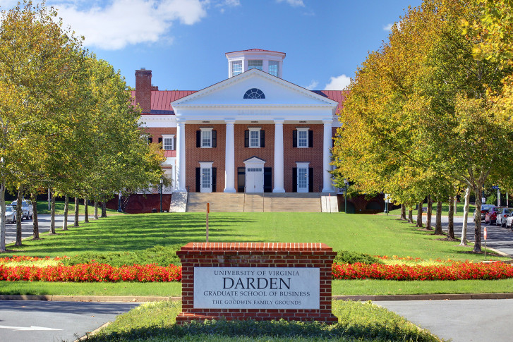 Darden UVA